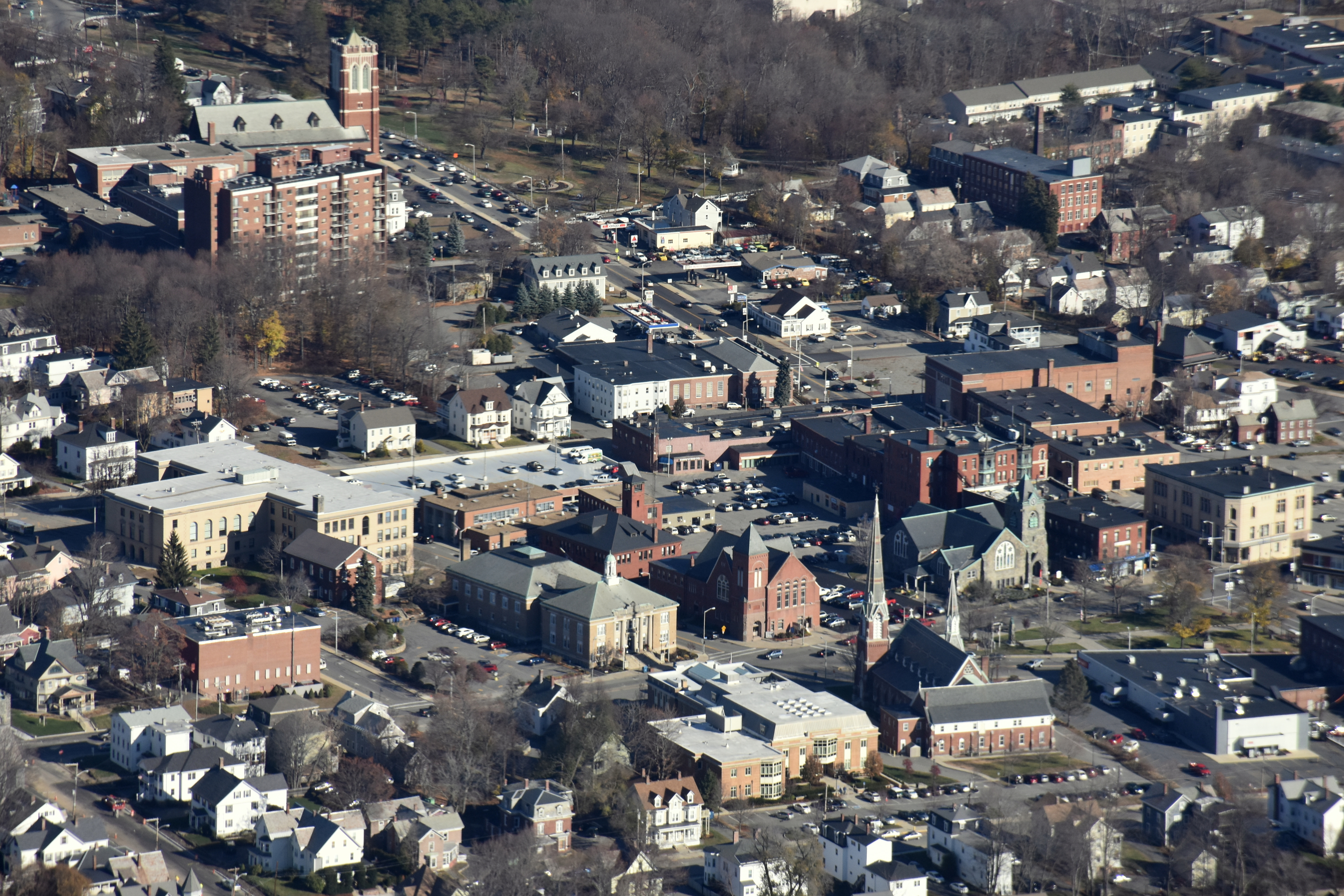 Aerial view of downtown Leominster, Massachusetts